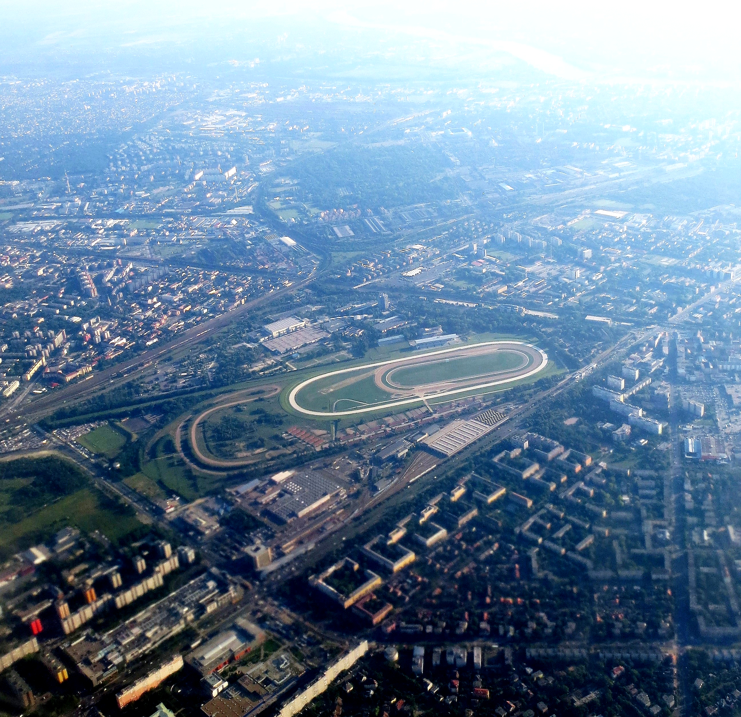 Aerial view over District X with Hungexpo and Kincsem Park (horse race track) facilities, eastern Budapest.